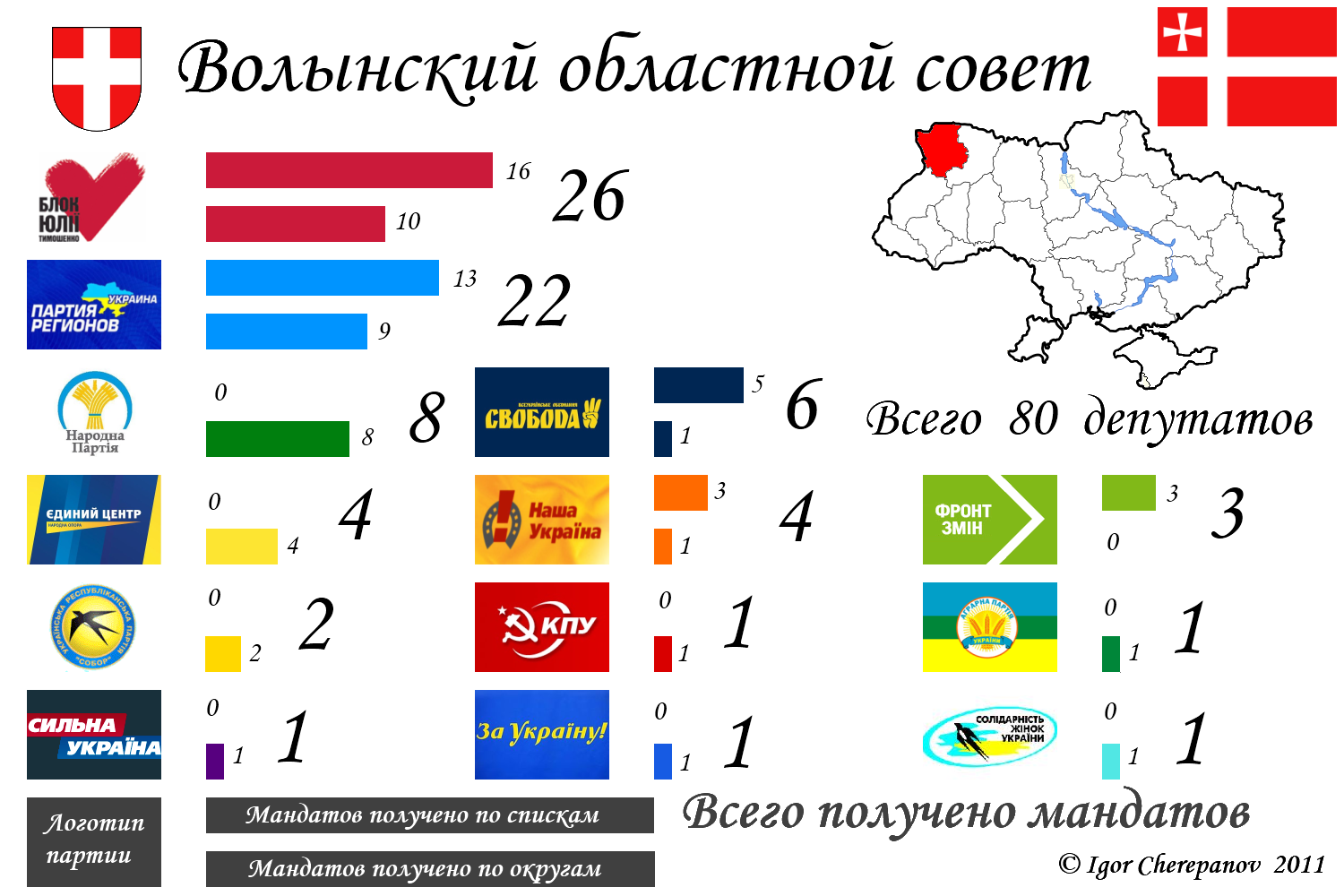 Results of Volyn Oblast local election 2010